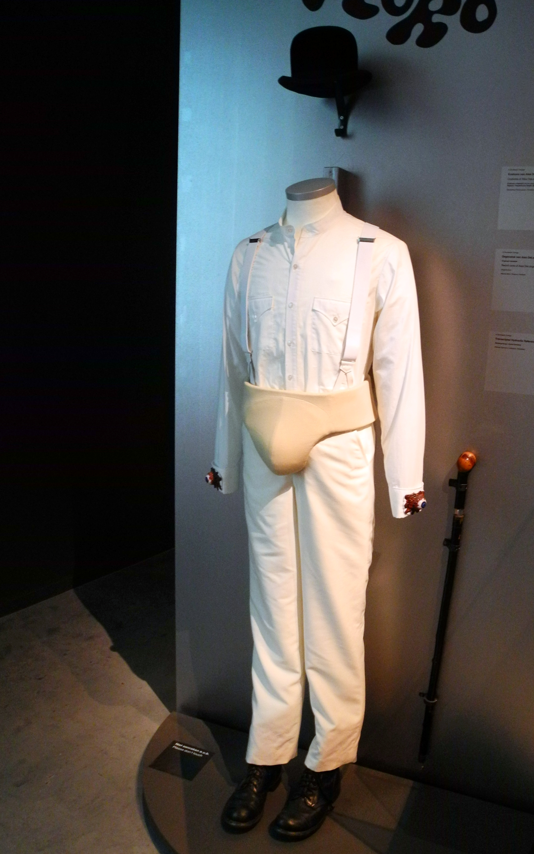 Original suit of Alex, from Stanley Kubrick's A Clockwork Orange.